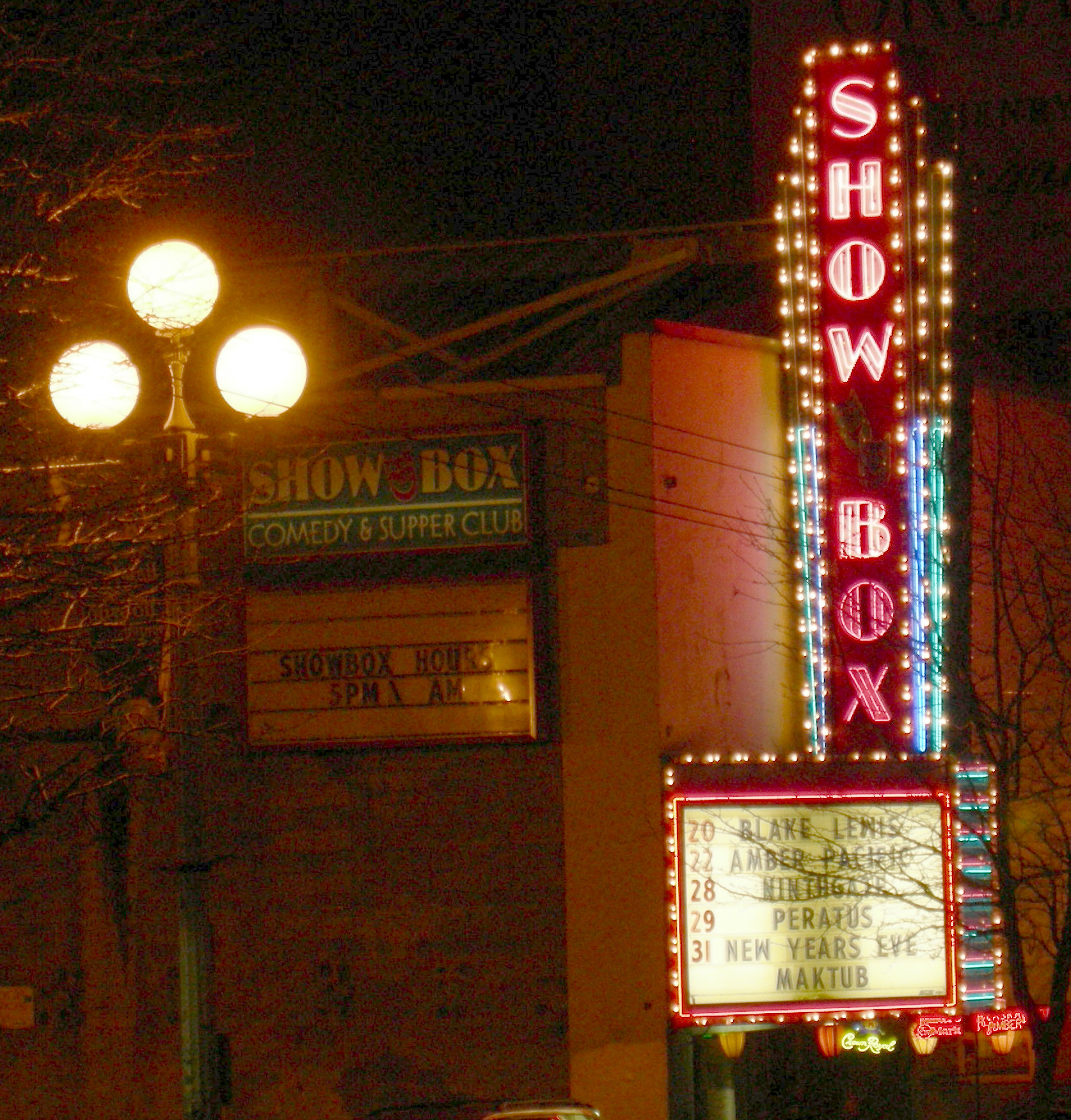 Marquee of the Showbox on First Avenue just south of Pike Street, Seattle, Washington, at night. See Peter Blecha, Showbox Theater (Seattle), HistoryLink, February 6, 2002 for a good article on this venue. This is colormapped lighter than the raw photo, and was also cropped.